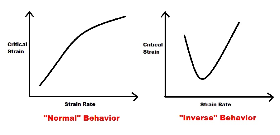 strain rate relations on critical strain for PLC effect